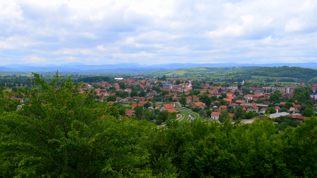 Zagubica, small town in eastern Serbia.